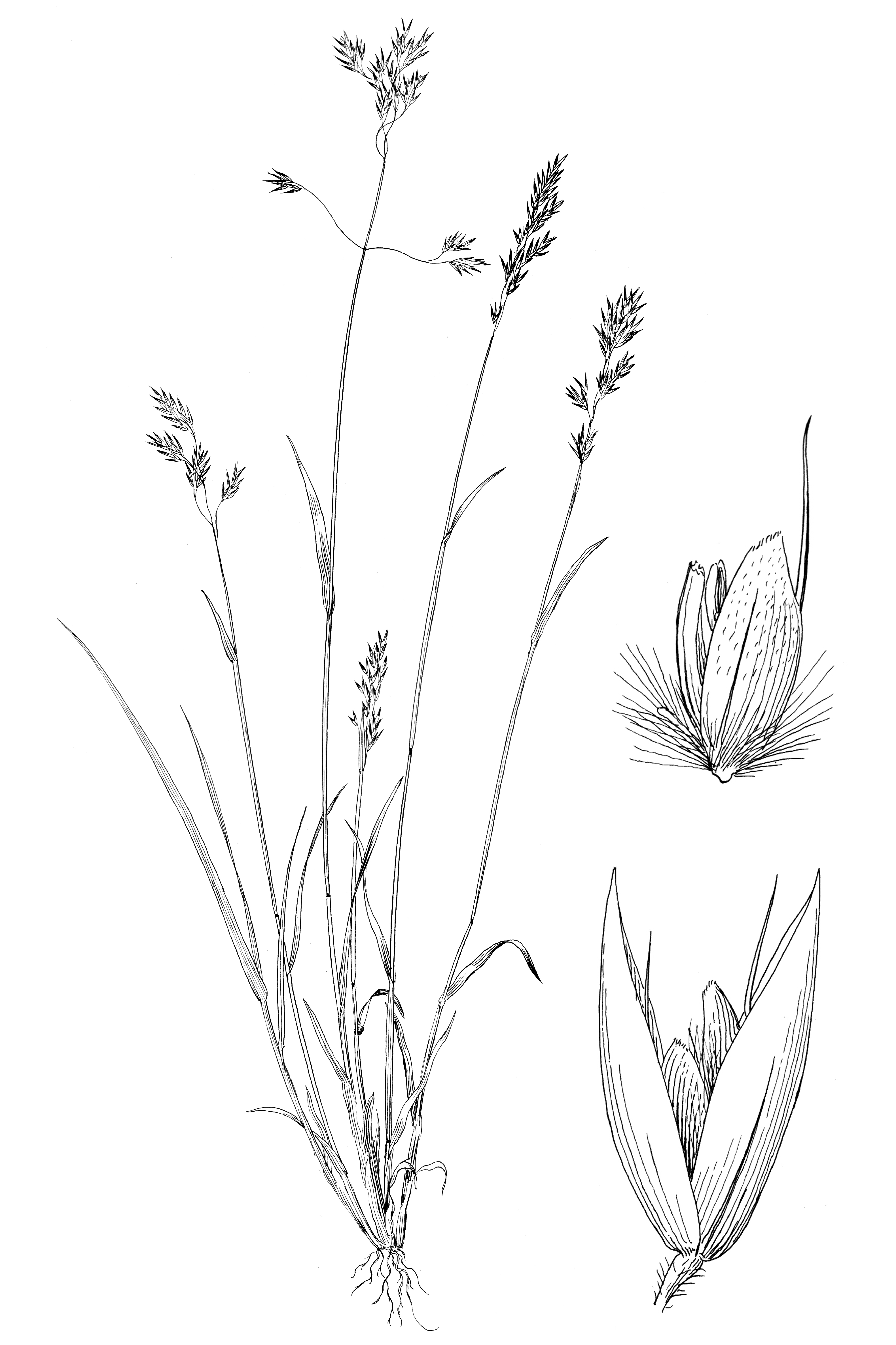 Vahlodea atropurpurea (Wahlenb.) Fr. ex Hartm. - mountain hairgrass (listed as Deschampsia atropurpurea (Wahl.) Scheele in the manual)